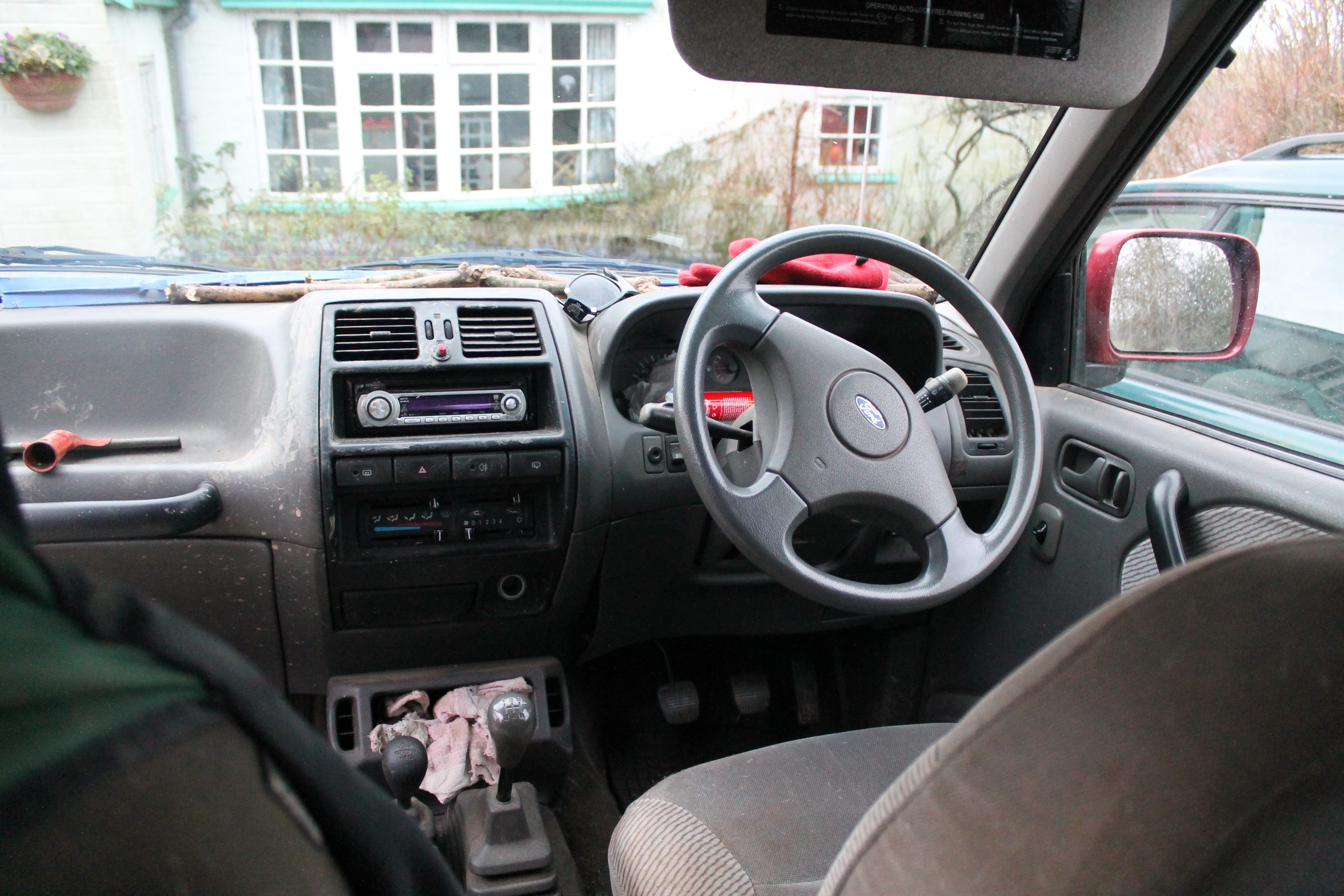 This is my step-grandmother's new car, bought to replace her early K reg Impreza which is sadly now scrapped. Bit unsuitable for a fairly frail nearly 80 year old, wouldn't you imagine? Bit of a tank, and incredibly slow and noisy. I think the 2.7 litre diesel was one of the slowest out there at the time. I really don't like this at all!